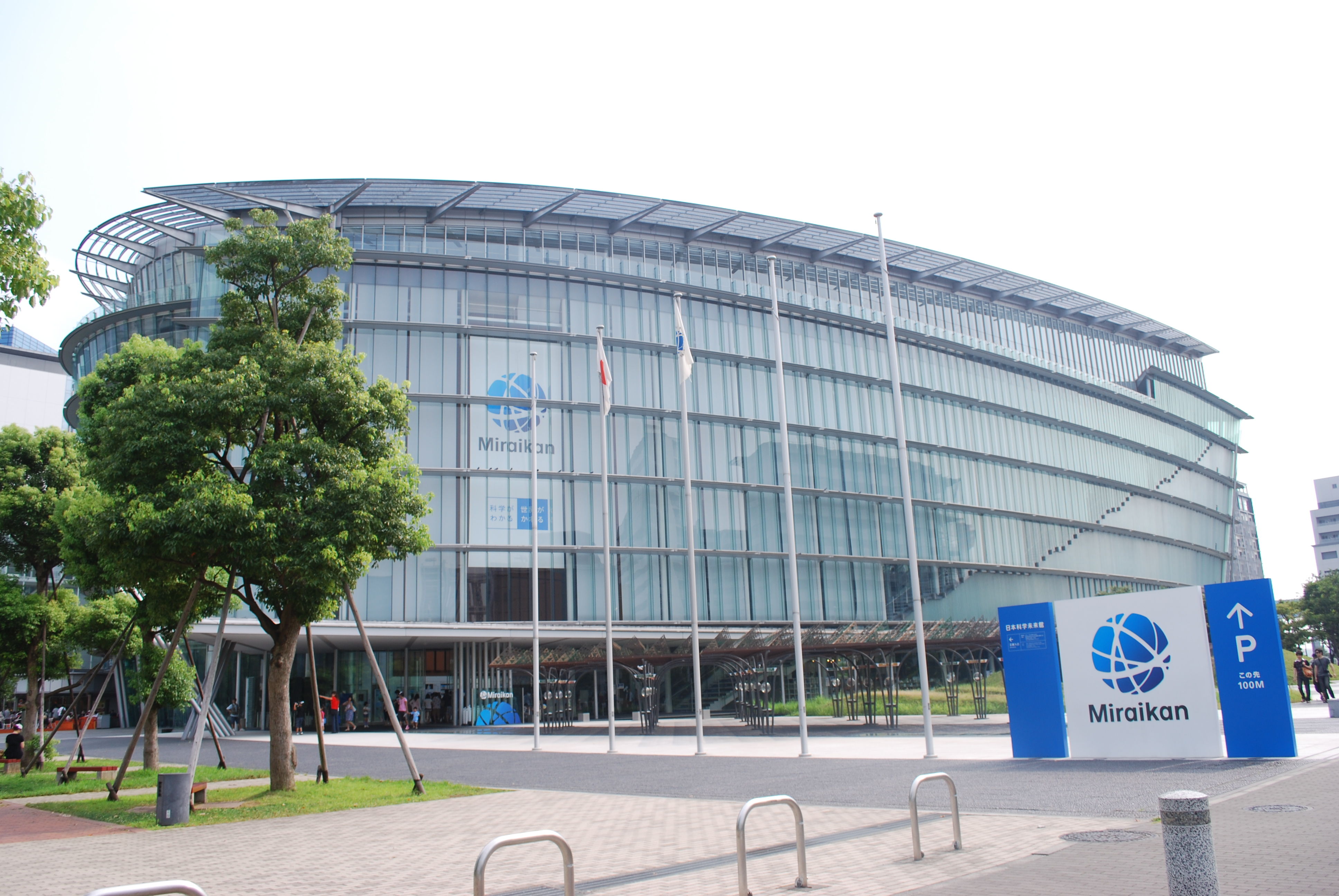 Nihon-Kagaku-Miraikan, Koto-ward, Tokyo, Japan